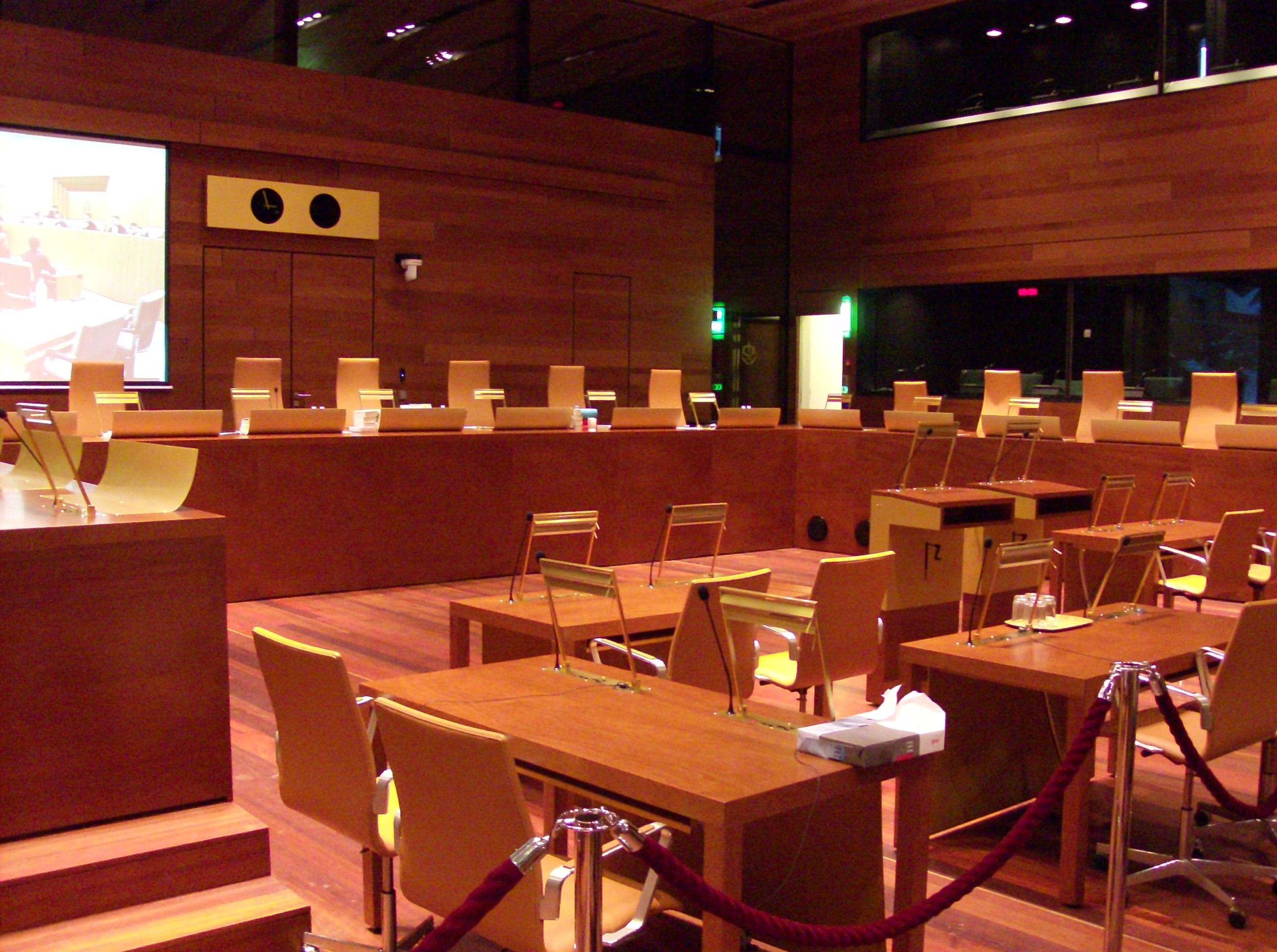 Medium courtroom in the Ancien Palais building of the Court of Justice of the European Union.